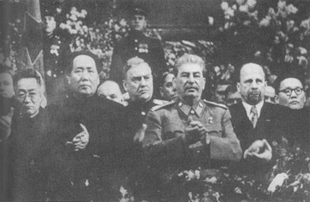 Mao at Stalin's side on a ceremony arranged for Stalin's 71th birthday in Moscow in December 1949. Behind between them is Marshal of the Soviet Union Nikolai Bulganin. on the right hand of Stalin is Walter Ulbricht of East Germany and at the edge Mongolia's Yumjaagiin Tsedenbal.